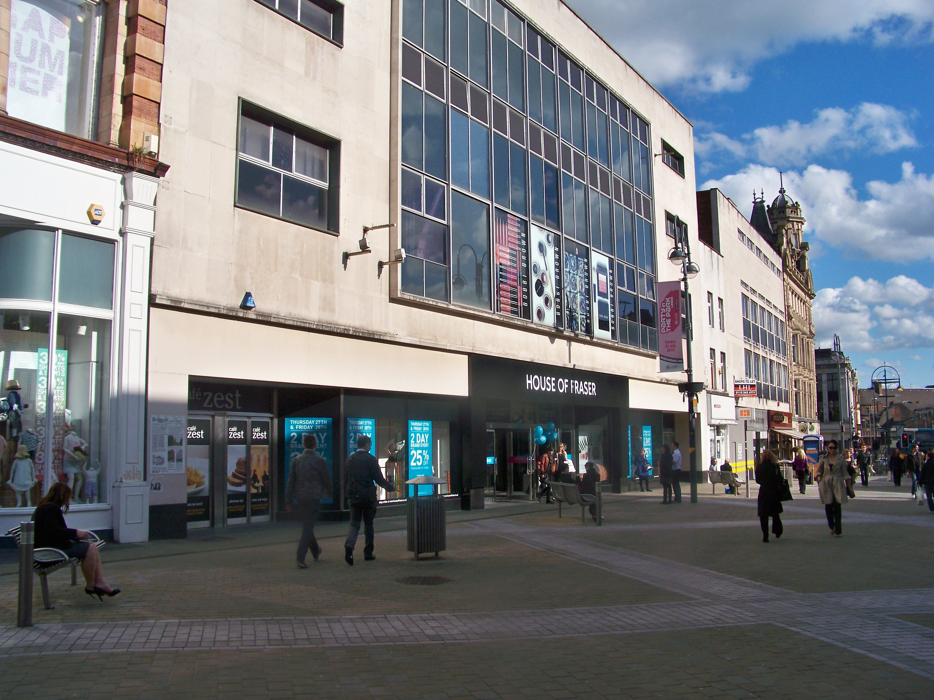 House of Fraser (what was Woolworths until they relocated to the Merrion Centre) on Briggate in Leeds, West Yorkshire. Taken on the evening of Thursday the 27th of May 2010.